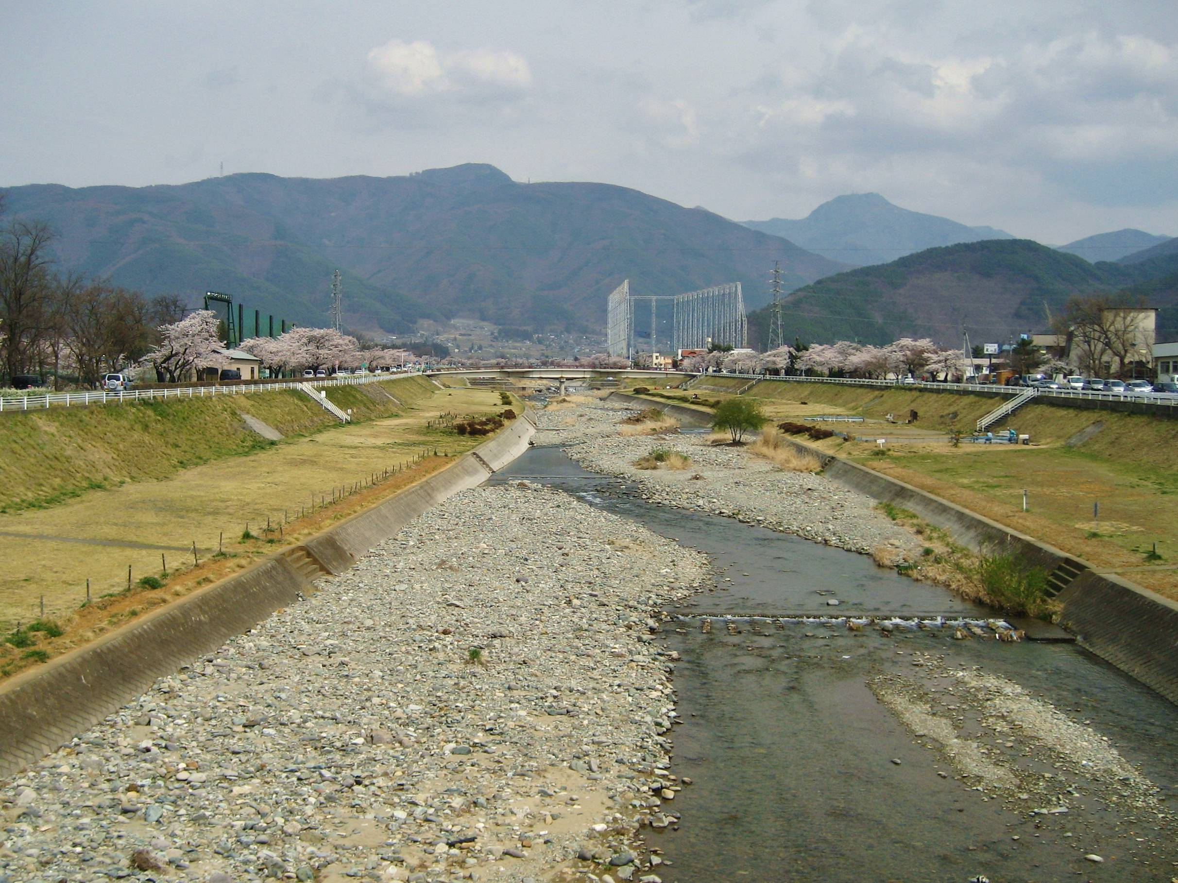 Susuki River.